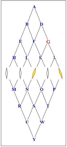 C&W 5 needle telegraph displays 20 letters.